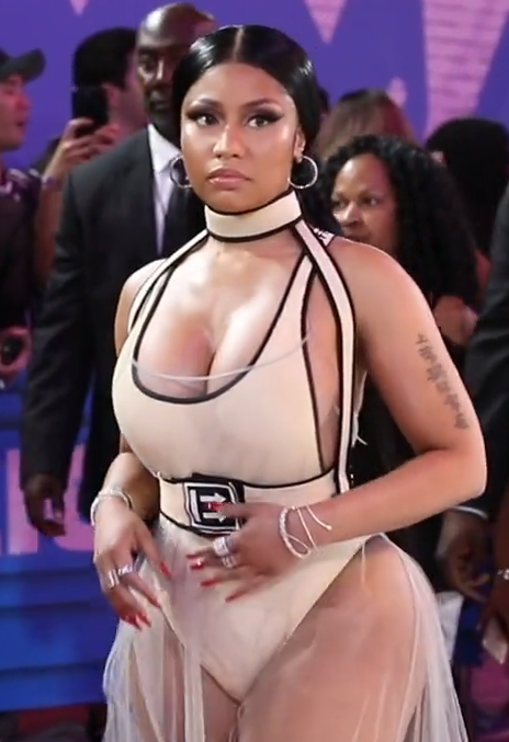 Nicki Minaj at 2018 VMA Red Carpet